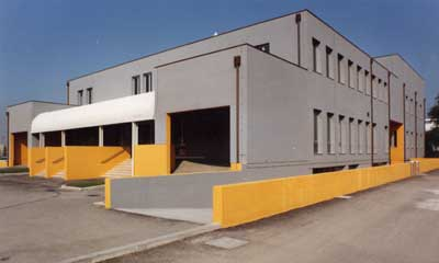 laboratoire analyses